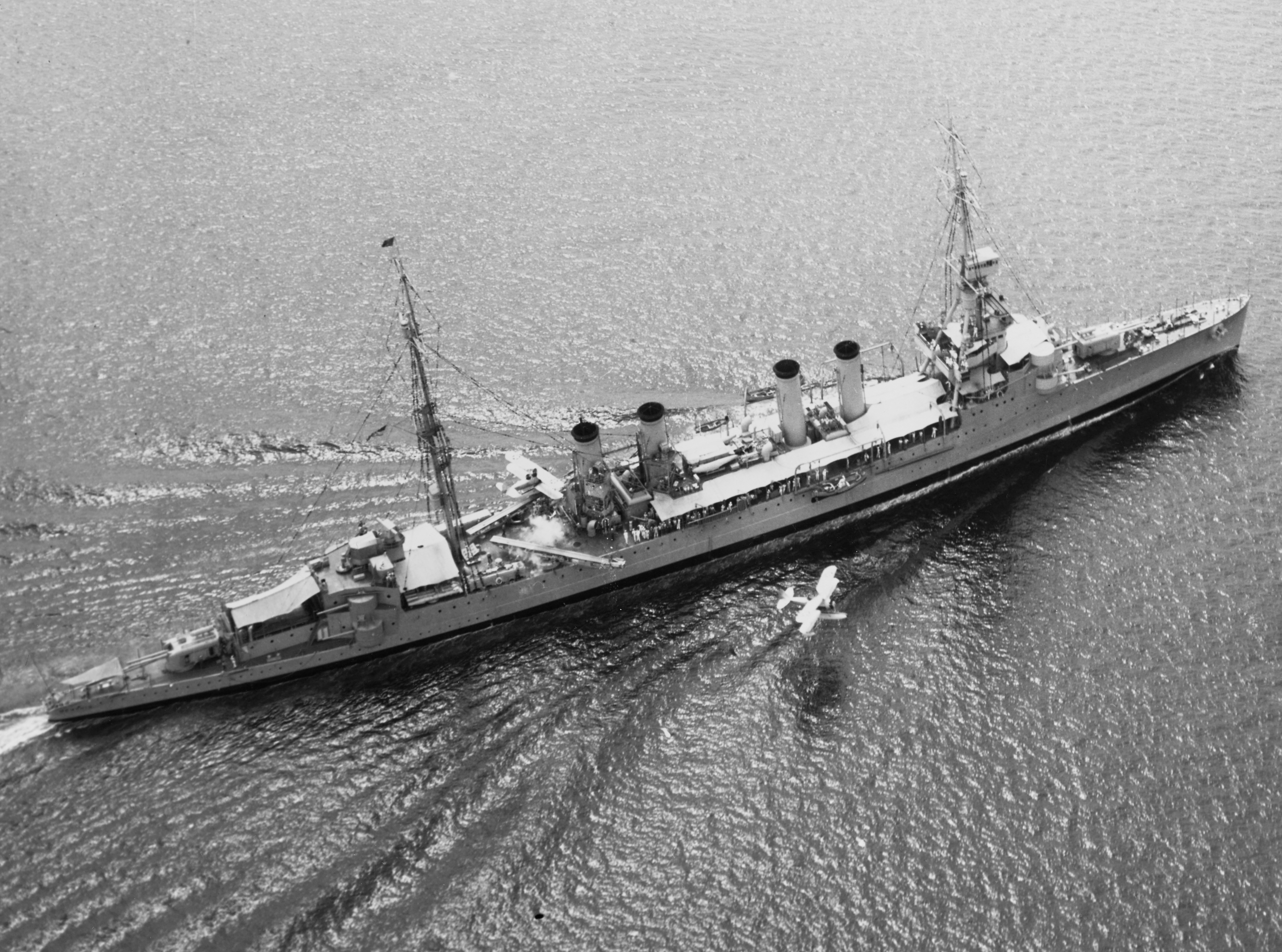 The U.S. Navy light cruiser USS Memphis (CL-13) catapults a Vought O2U Corsair floatplane during fleet maneuvers on 10 May 1933.